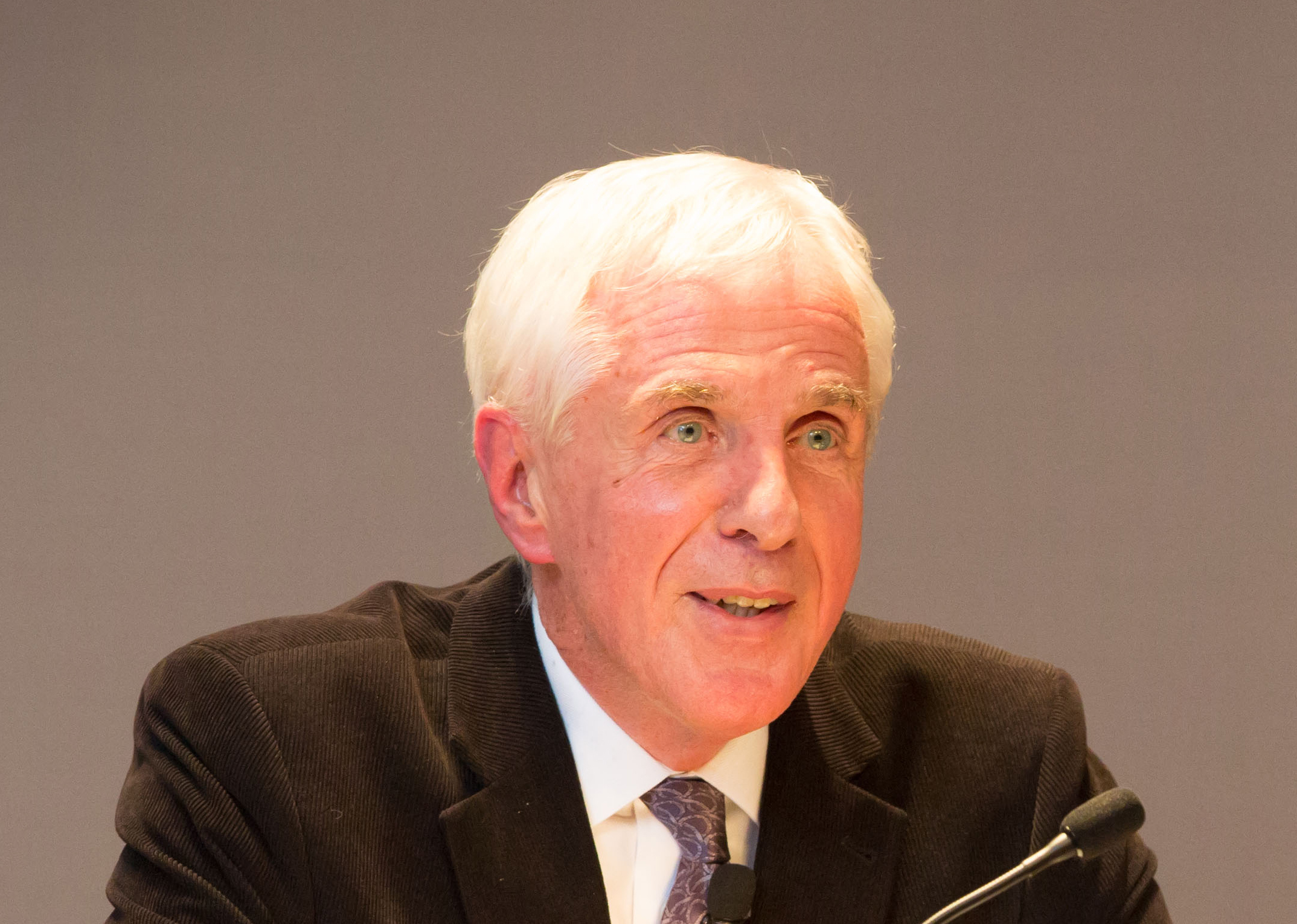 Photograph of Robert Fox, historian of science, 14 November 2013, speaking at the Chemical Heritage Foundation, Philadelphia, PA, USA.